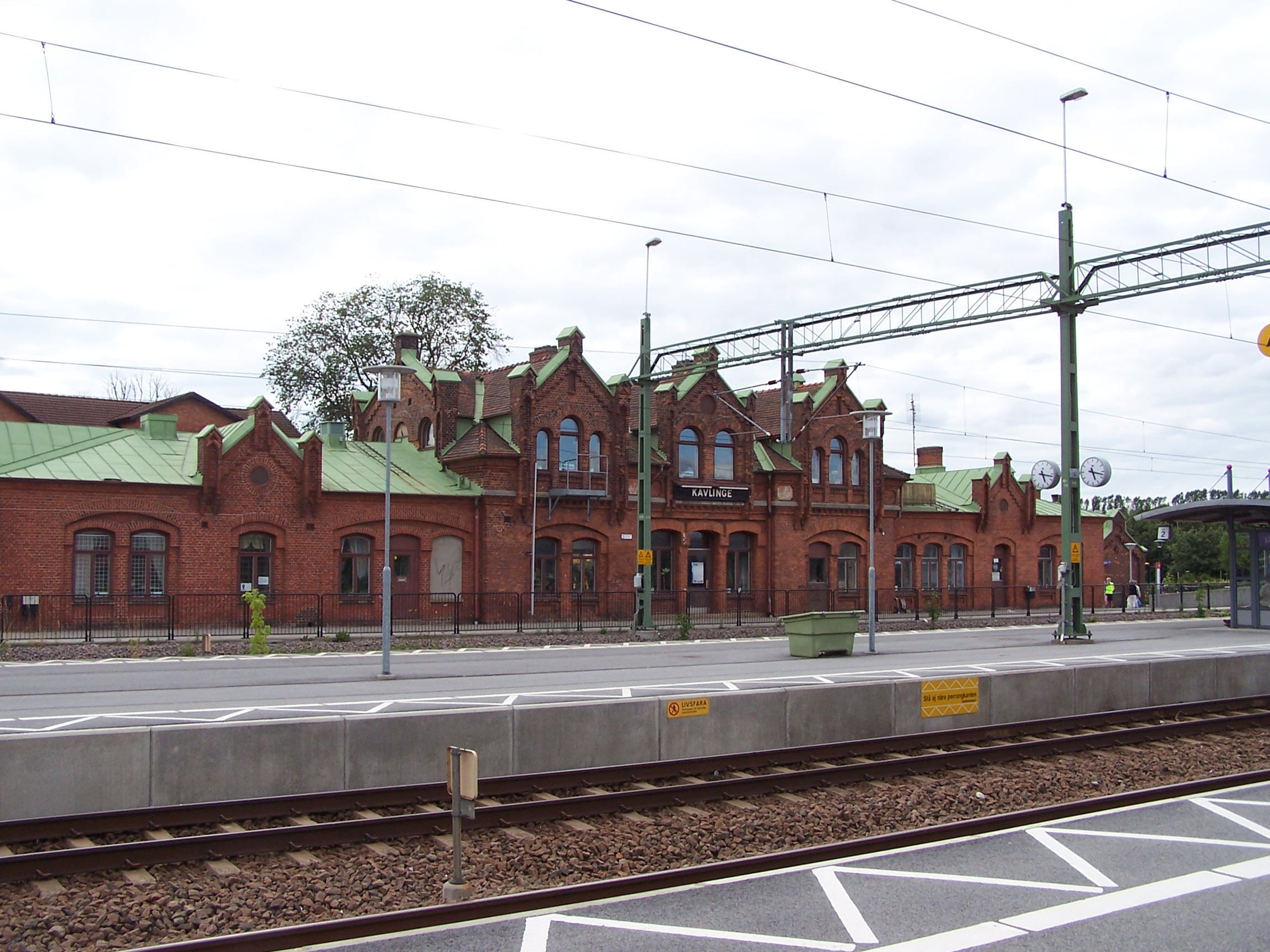 Kävlinge railway station/railroad station, Sweden